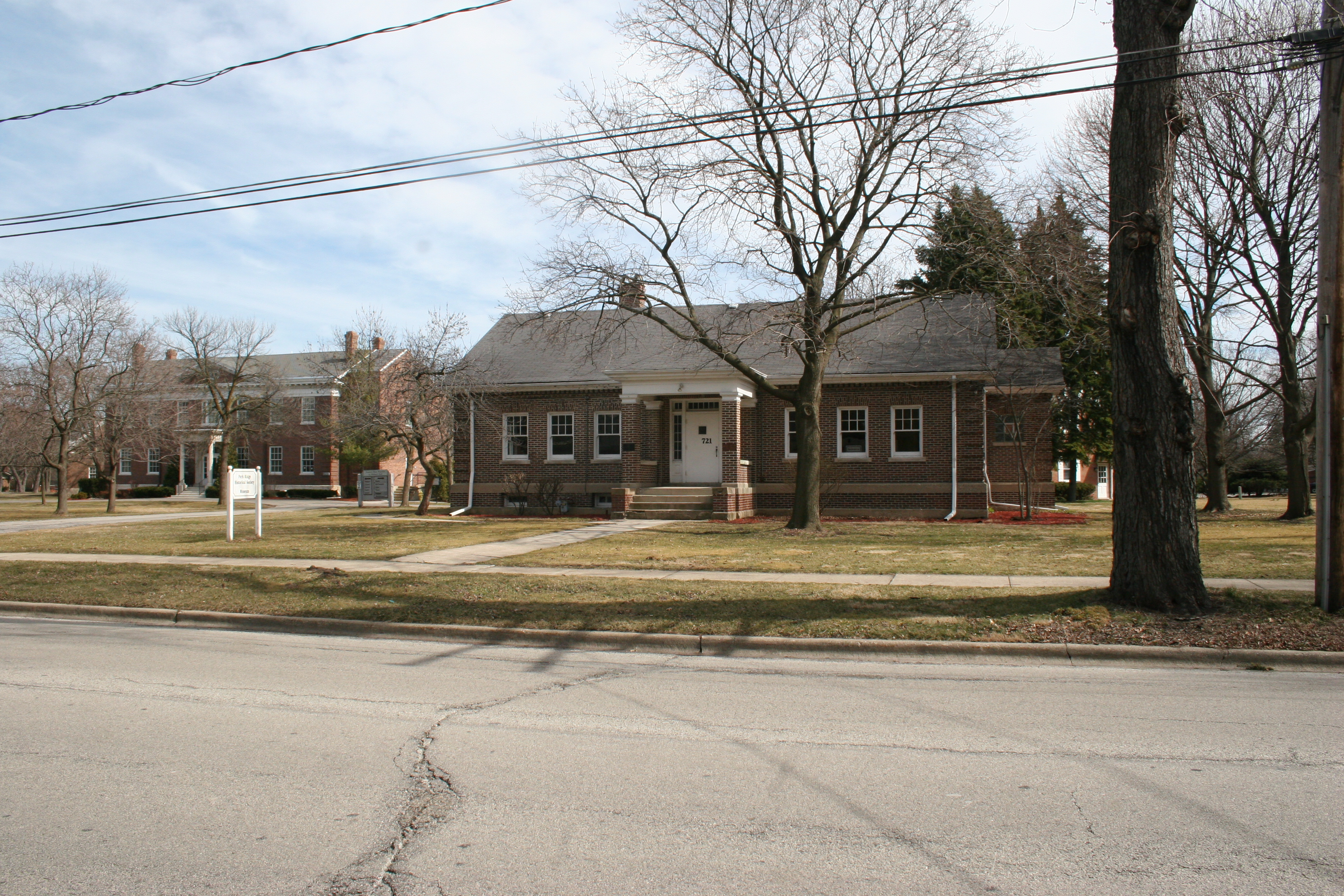 Illinois Industrial School for Girls: Solomon Cottage (721 N. Prospect Ave.) in front